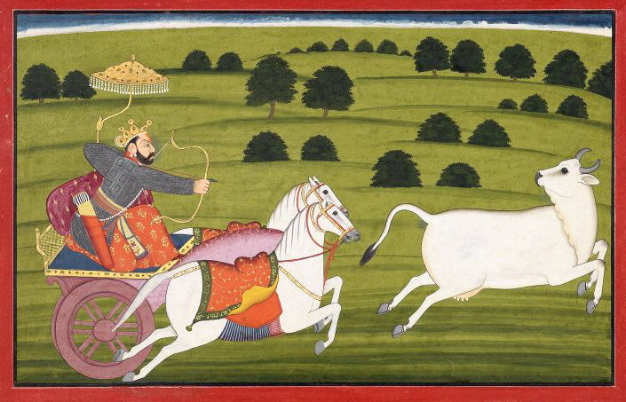 Prthu chases the goddess earth, from an illustrated manuscript of the Bhagavata Purana Indian, Pahari, about 1740